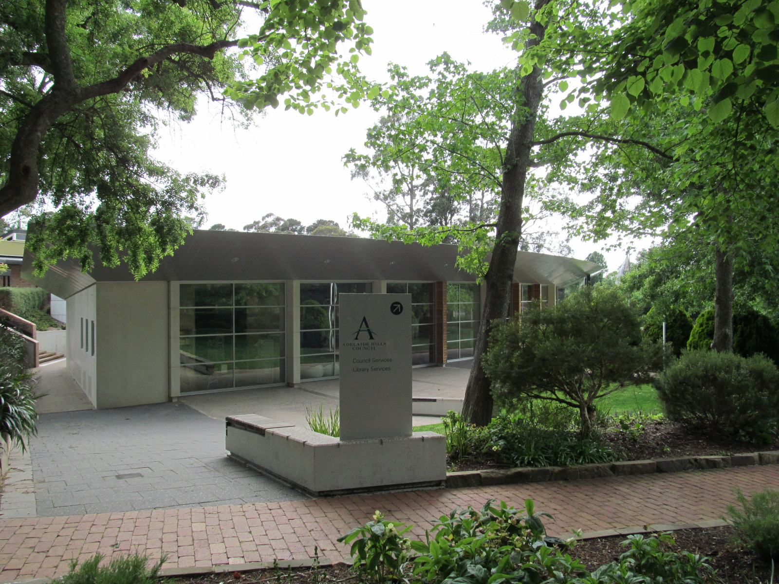 Adelaide Hills Council chambers in Stirling, South Australia